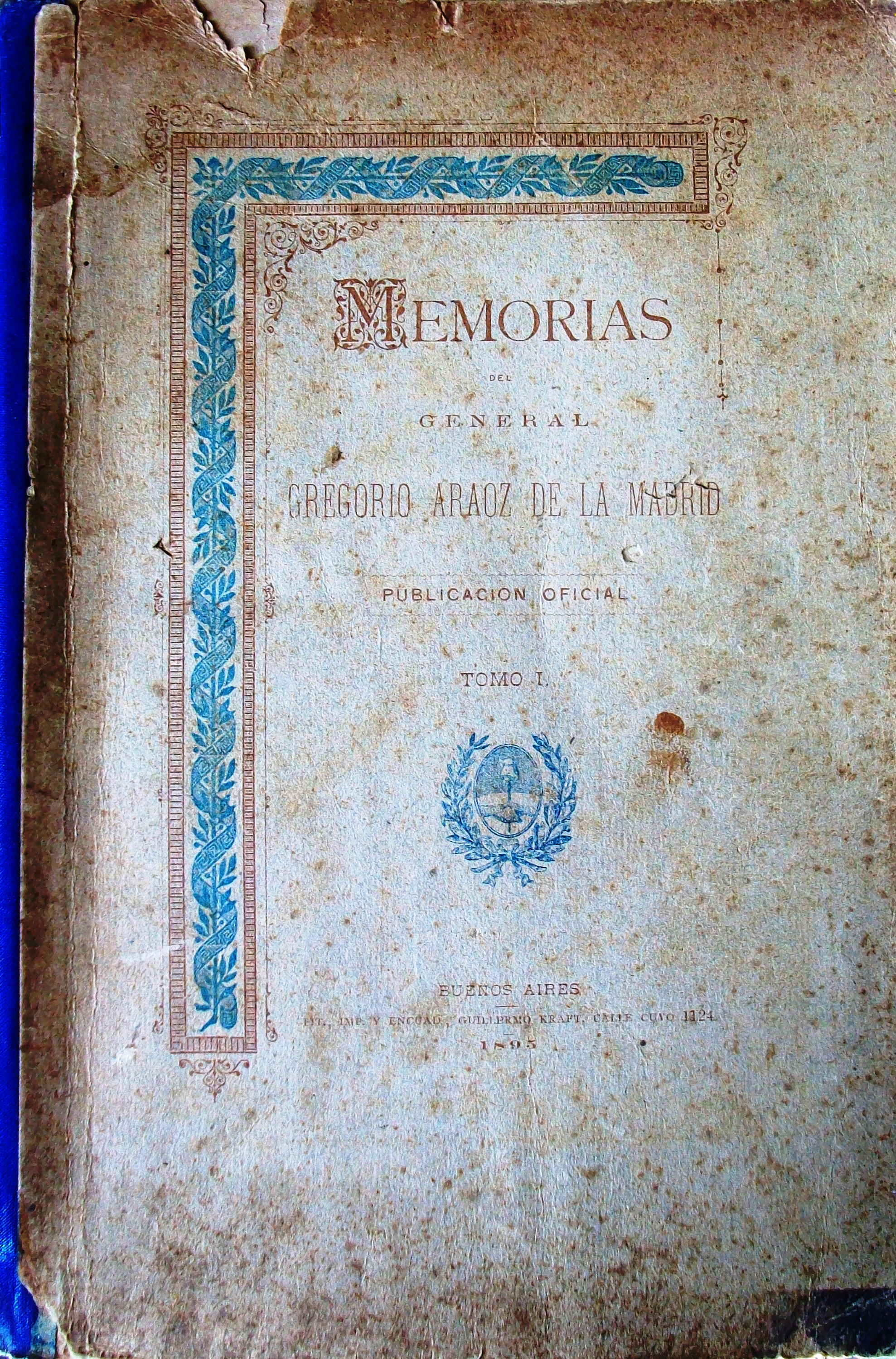 Book cover of Memorias del General Gregorio Aráoz de Lamadrid. Publicación Oficial .Tomo I. Published by Guillermo Kraft.